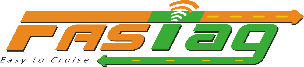 Fastag-logo